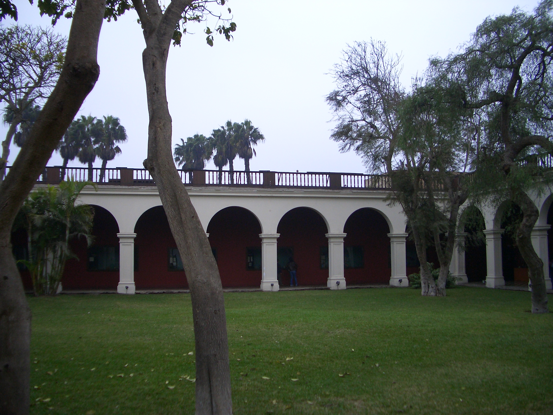 Taken on a trip to Lima, Peru in 2004.